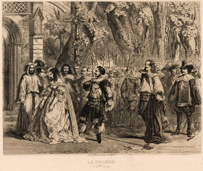 Scene from an opera by Louis Niedermeyer, « La Fronde », 4e acte